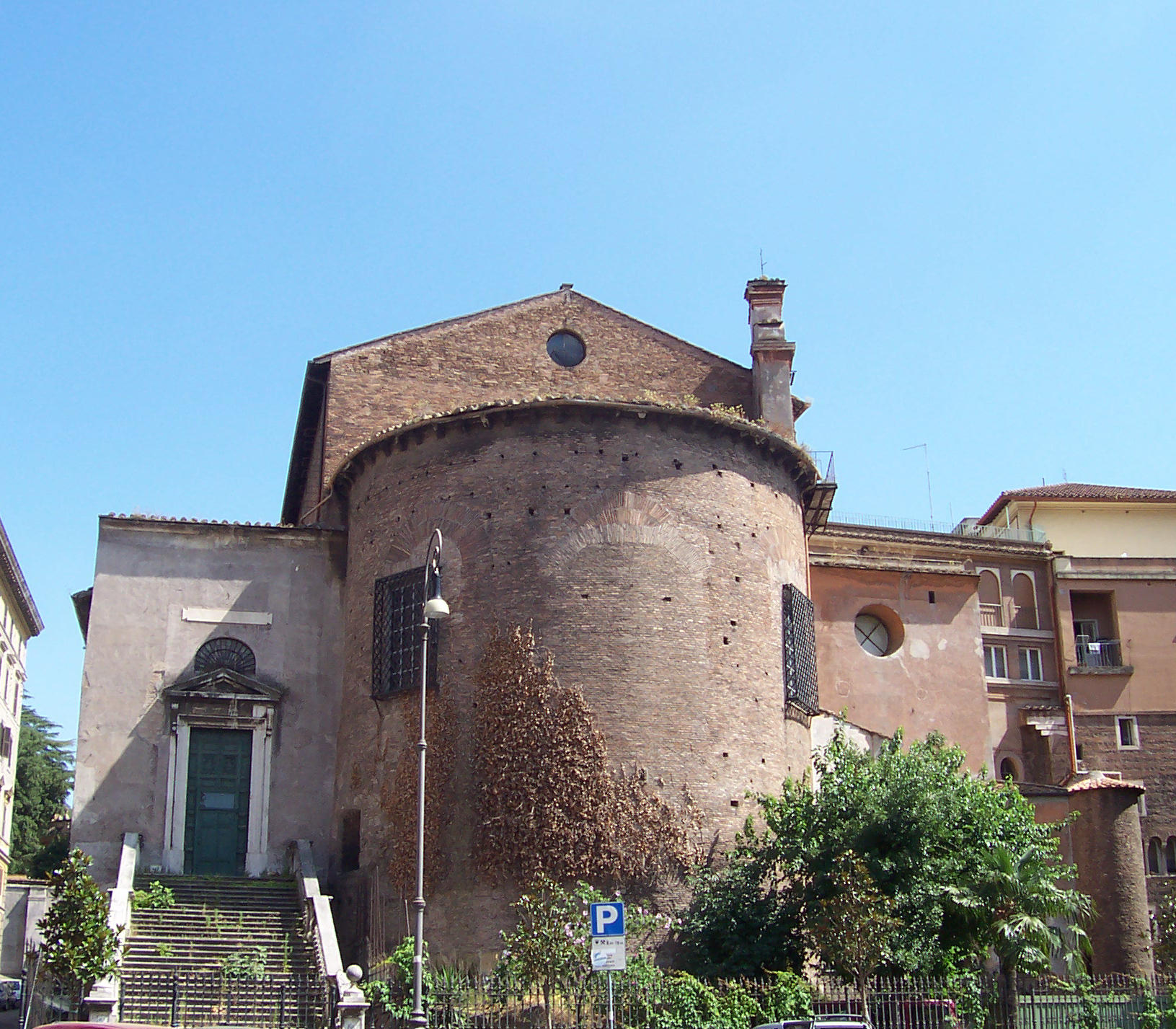 San Martino ai Monti, church of Rome, external view of the apsis